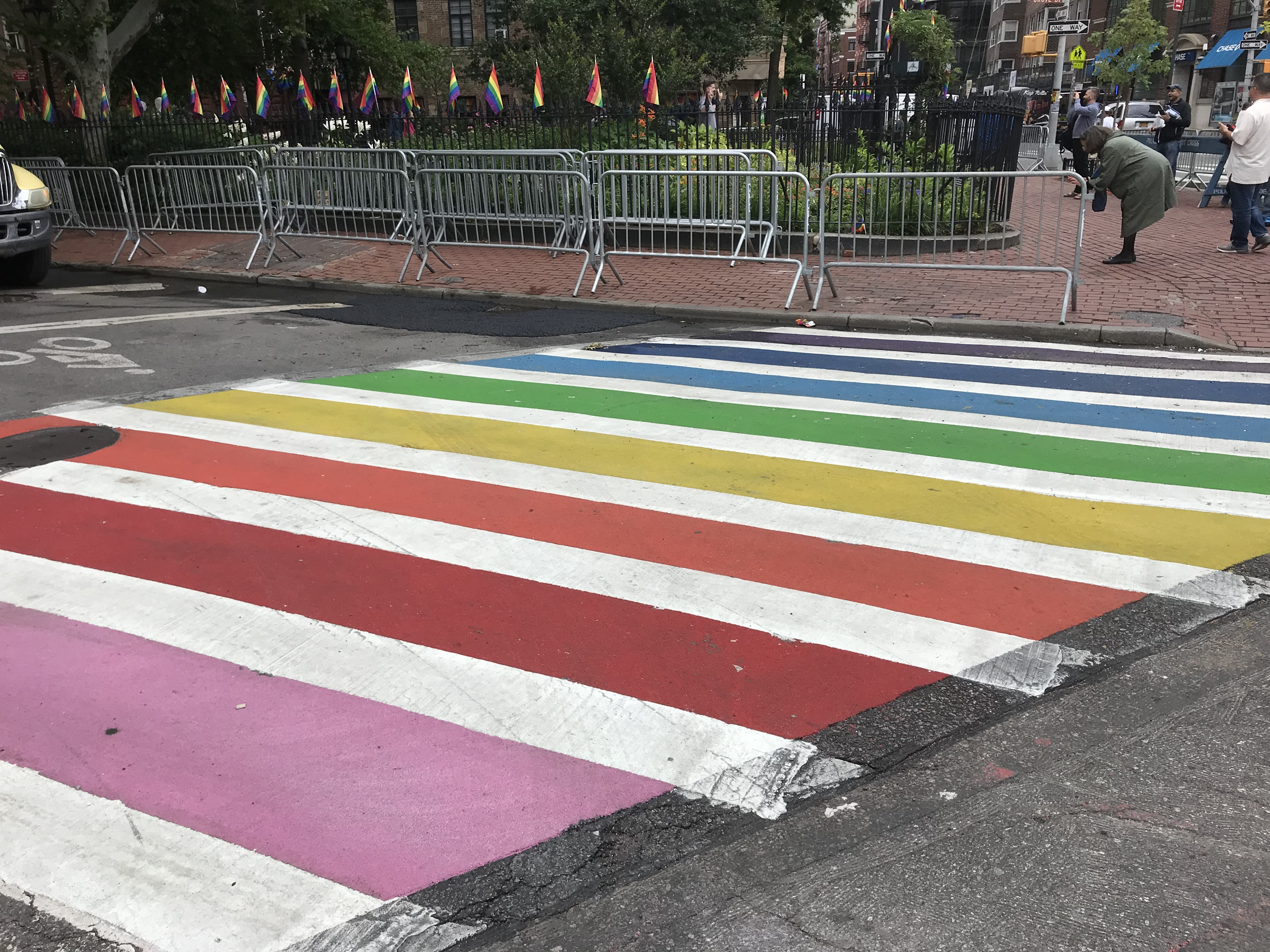 Official NYC painting of the crosswalk at Christopher Street and Stonewall National Monument.Locality: New York CityTheme: This demonstrates public support of LGBT rights and place in history.